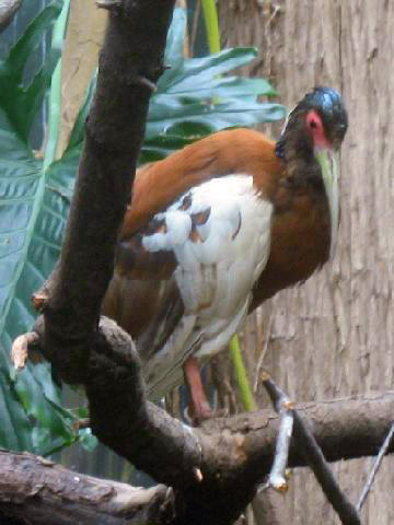 Madagascar Crested Ibis at Bronx Zoo.